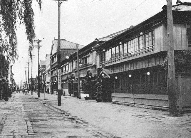 Yoshiwara in 1930s